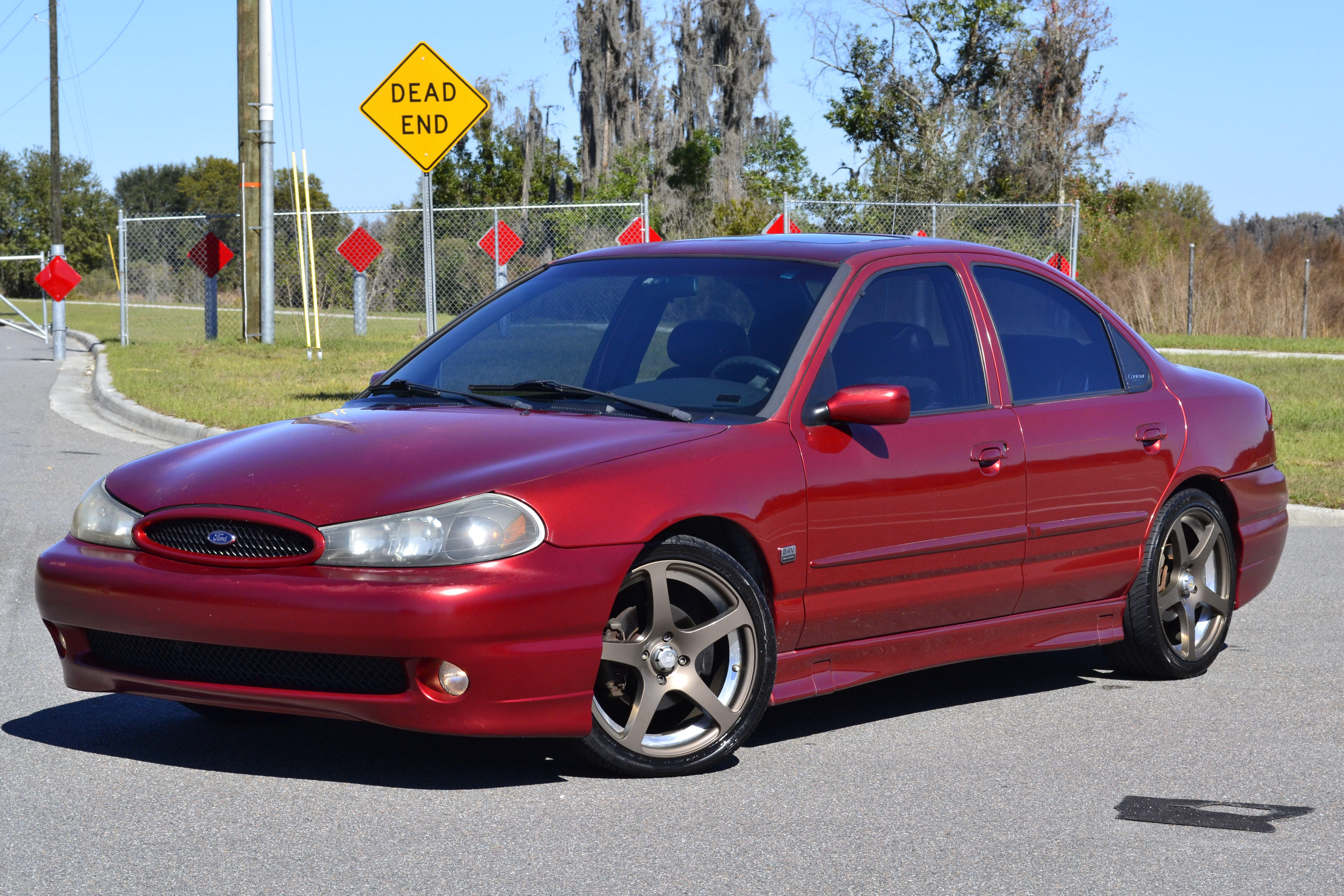 Toreador Red 1998 Ford Contour SVT